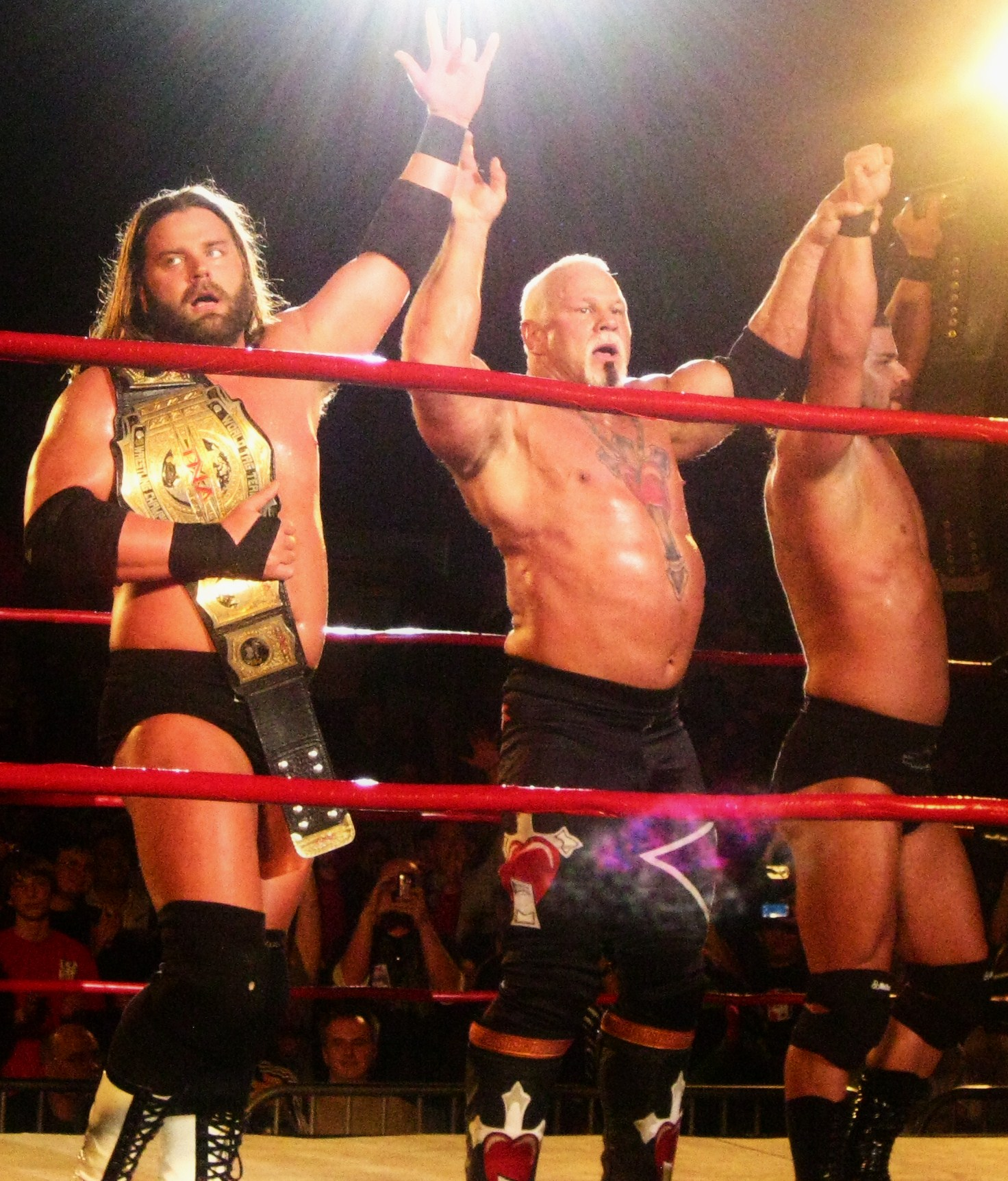 A TNA Live! Even at the ShoWare Center in Kent, WA. No PRO cameras were allowed so I had to put my Canon PowerShot SD1100 IS to work!